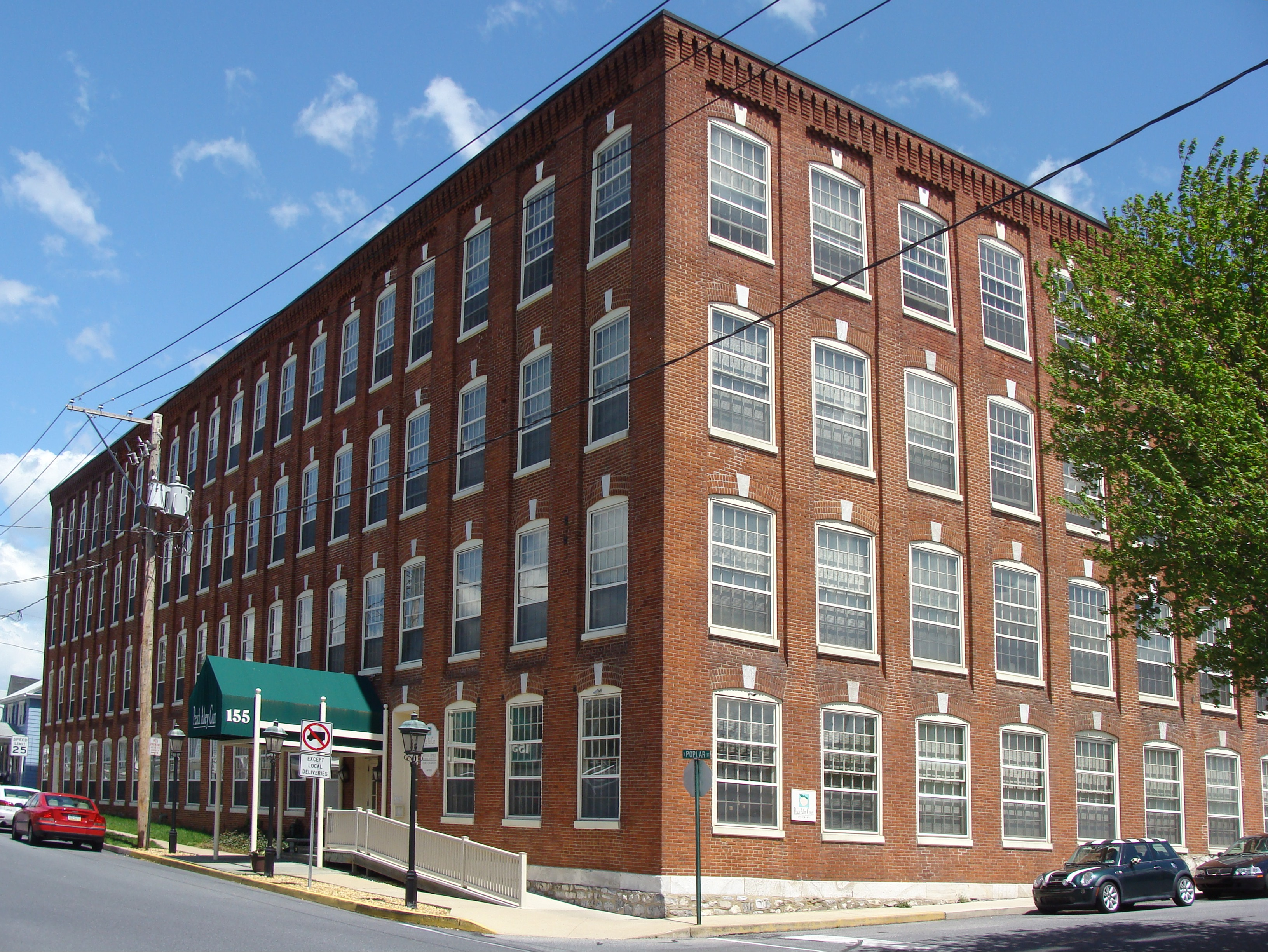 The former Kreider Shoe Manufacturing Company factory building in Elizabethtown, Pennsylvania.